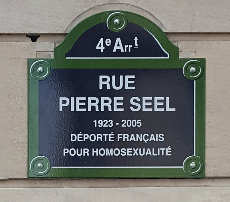 Pierre Seel Street, Paris (France)